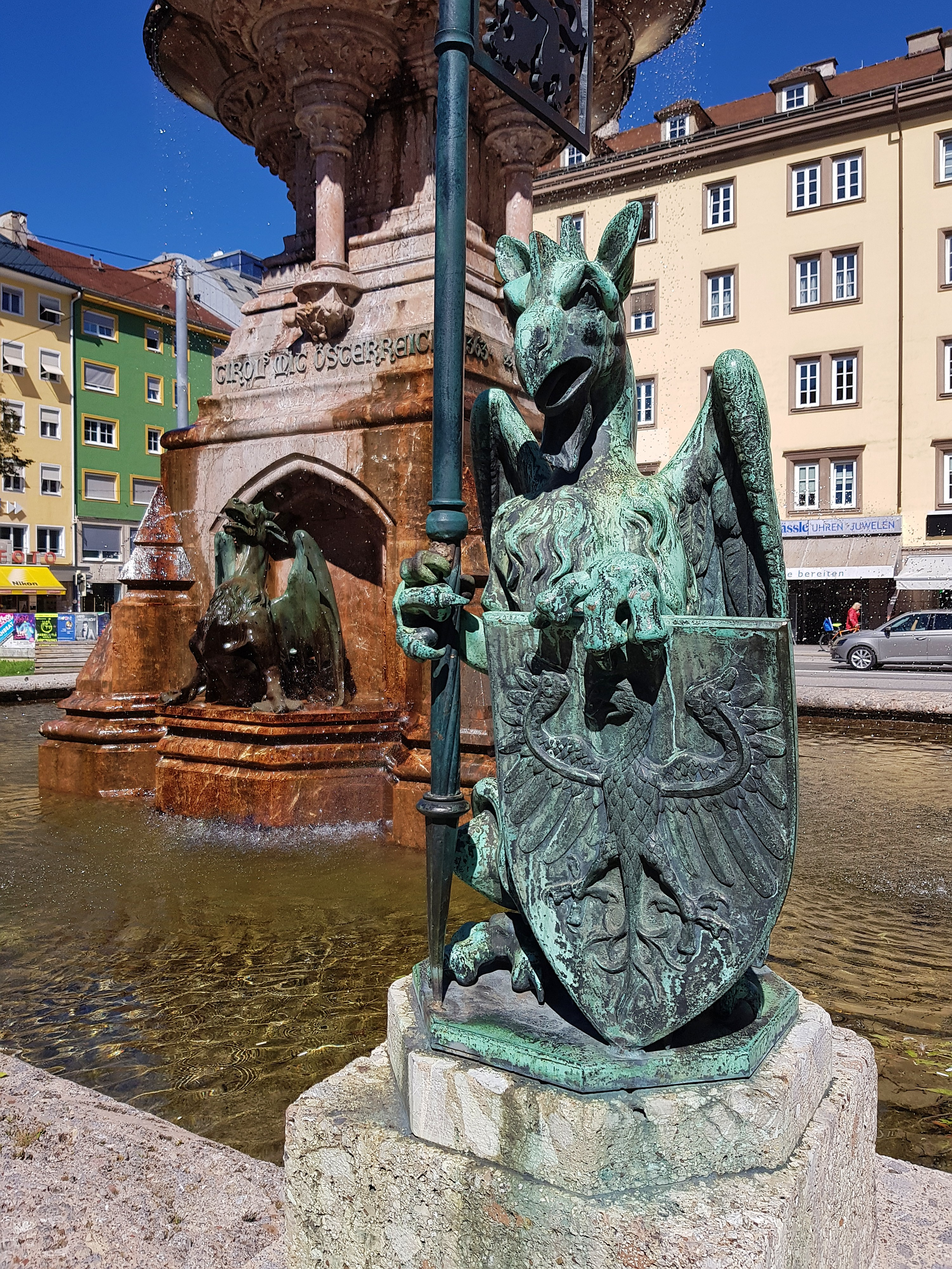 Rudolfsbrunnen